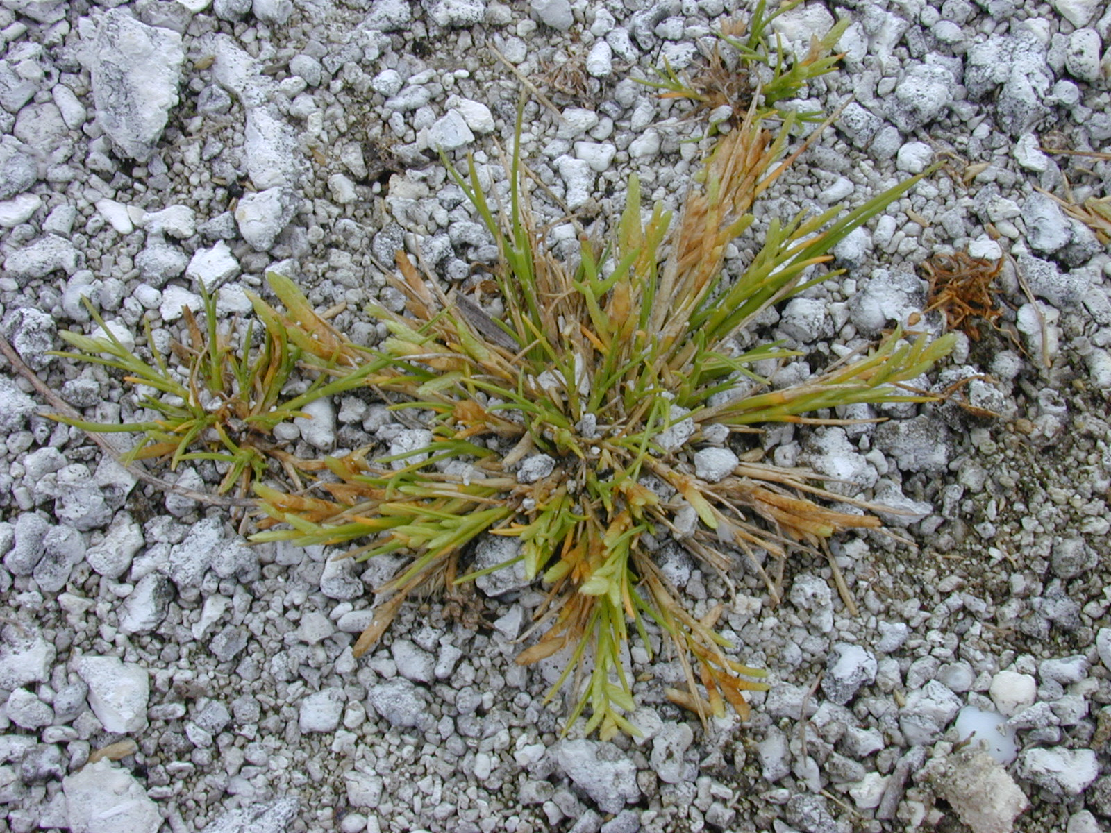 Eragrostis paupera (habit). Location: Kure Atoll, Abandoned runway